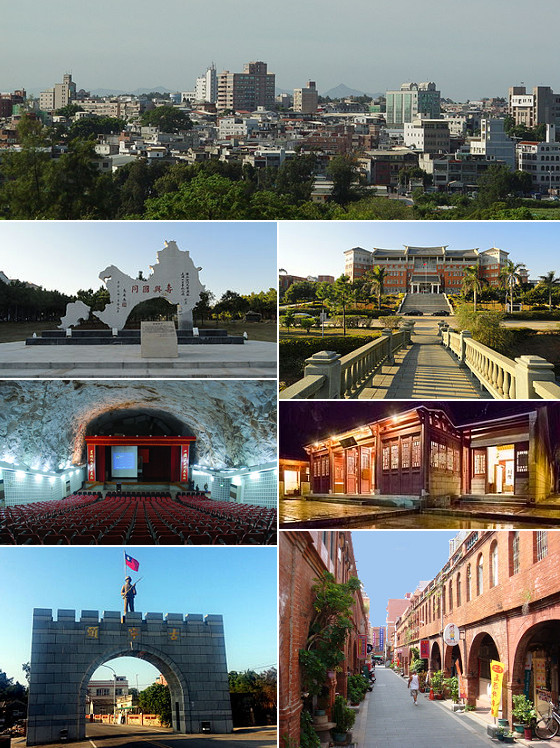 Montage of various Kinmen County images.